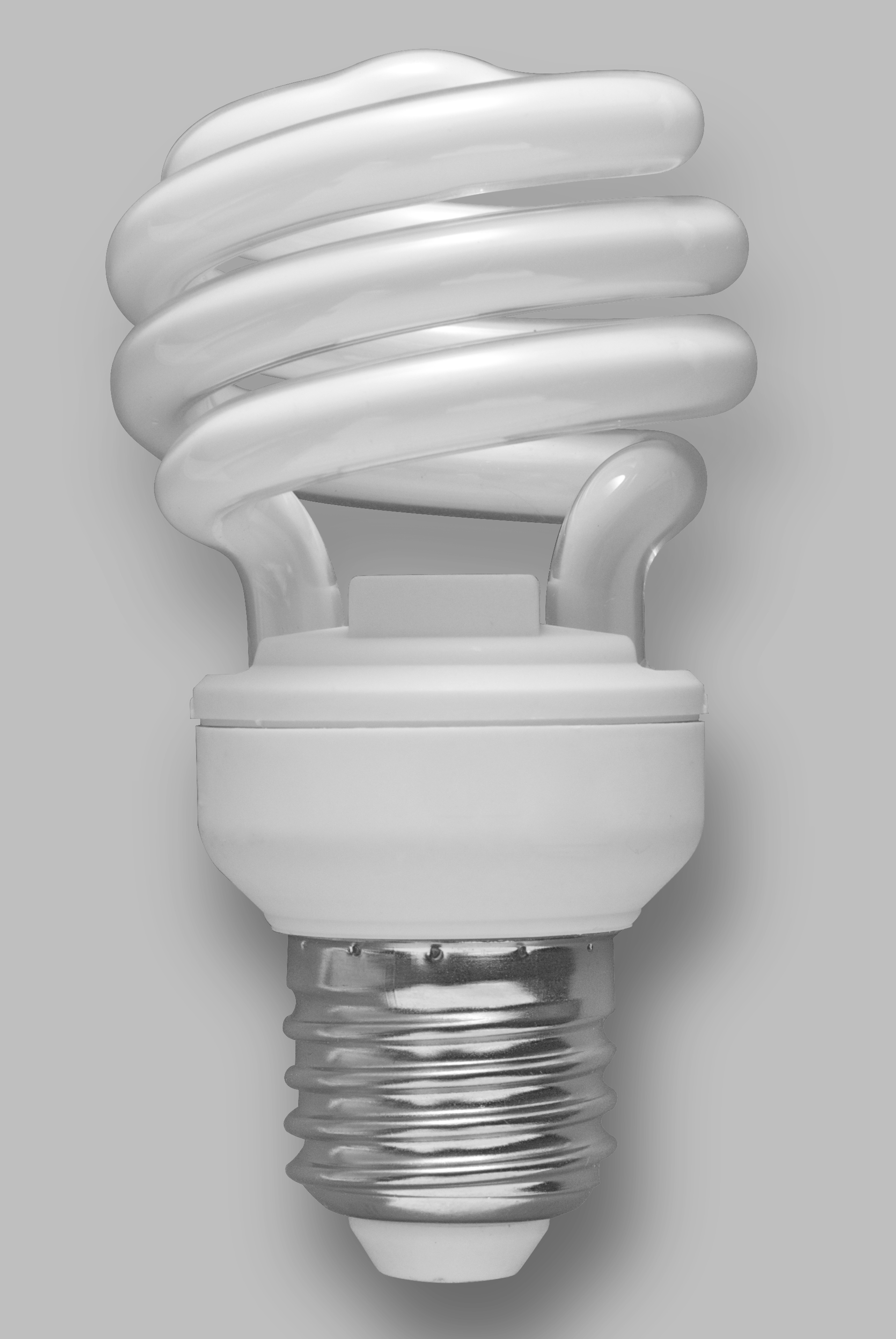 A spiral CFL bulb on a dark gray (75V HSV colour system) background